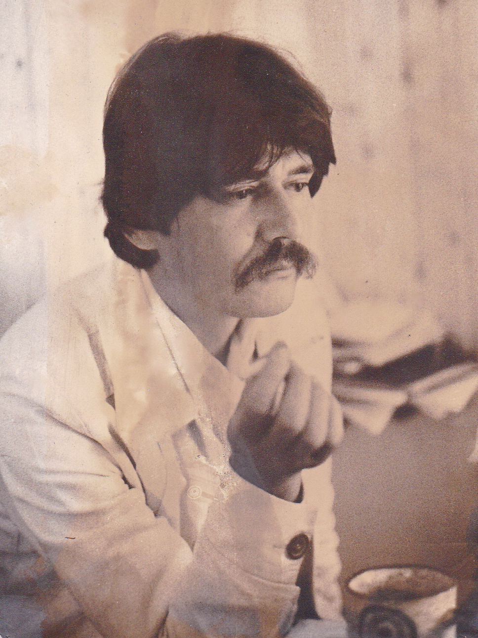 Austrian poet Peter Koeck in the 1970s